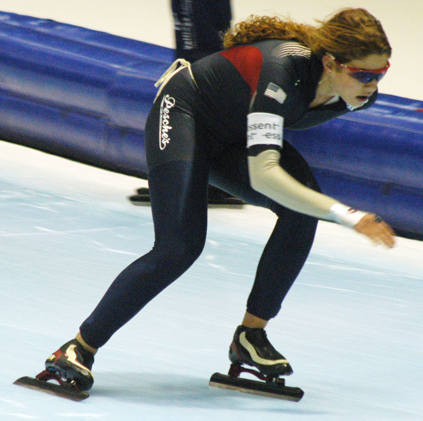 Nancy Swider-Peltz, Jr. (USA) at a World Cup Speedskating in Thialf (Heerenveen, the Netherlands).